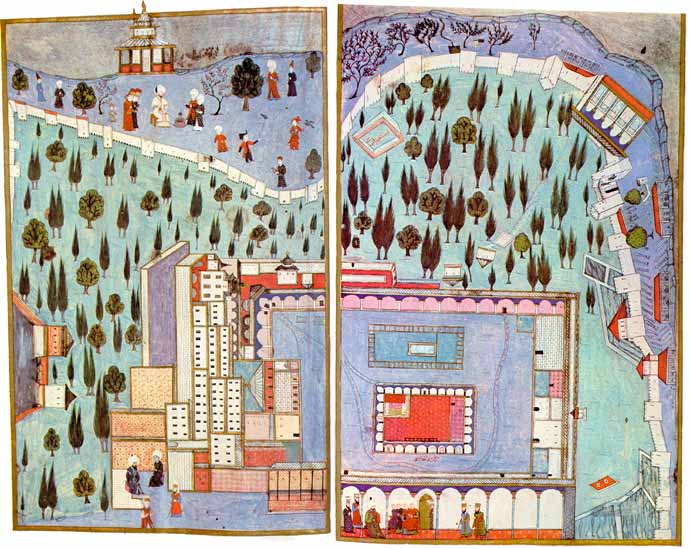 The Third Court of the Topkapi Palace. Ottoman miniature painting of the Hünername, kept at the Topkapı Sarayı Müzesi, Istanbul (Inv. 1523/231b-232°).